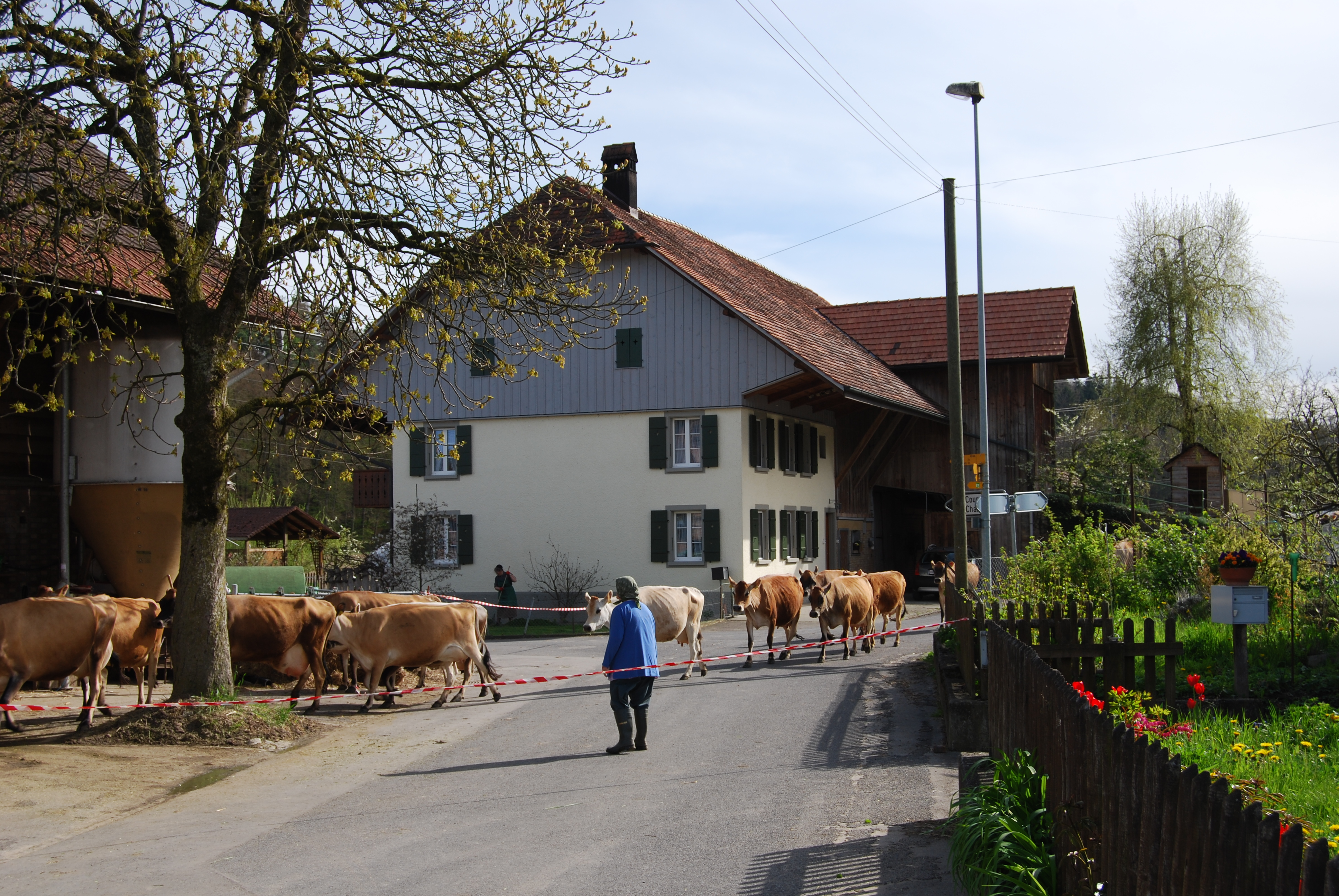 Clavaleyres, canton of Bern, SwitzerlandEsperanto: Clavaleyres, Kantono Berno, Svislando